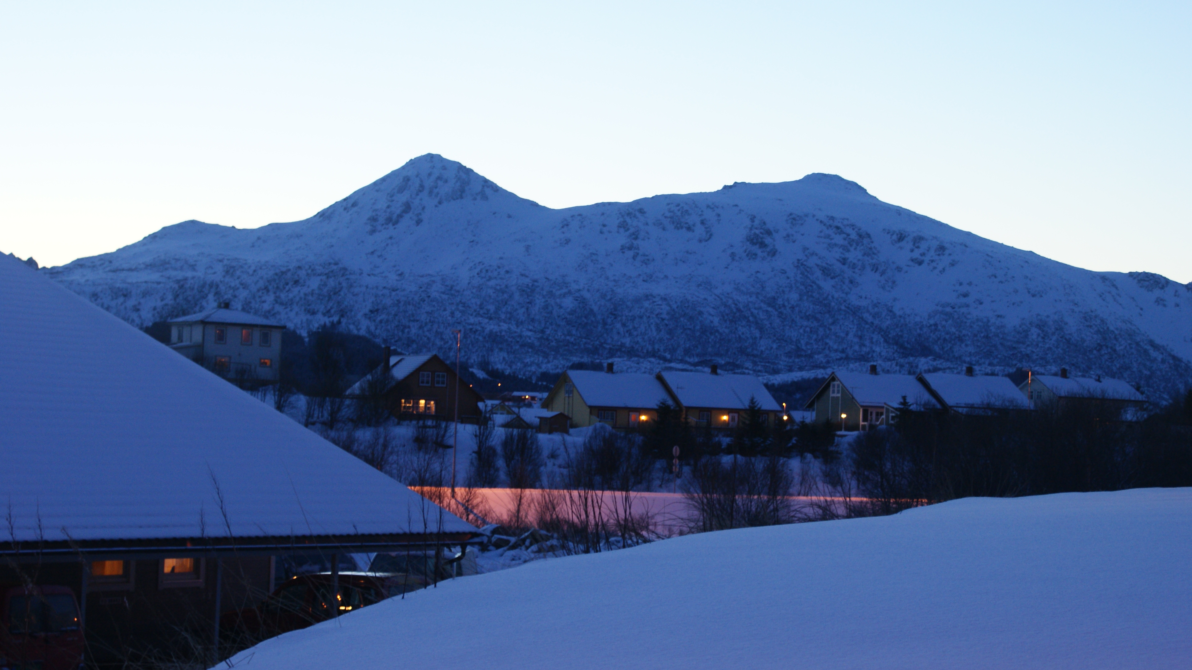 Leknes, Vestvågøya, Lofoten, Norway. Bulitinden and Guratinden mountains, early winter morning in Leknes.